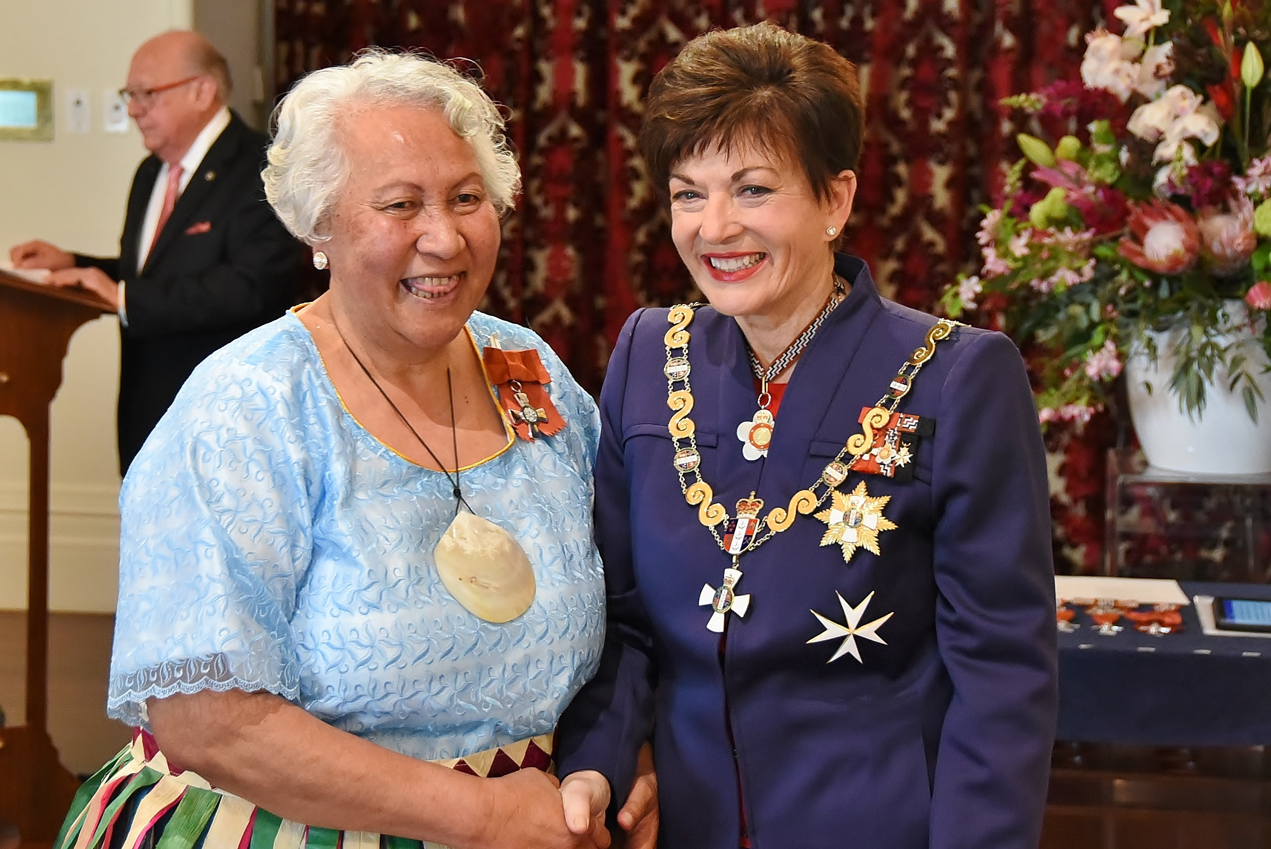 Susana Lemisio, of Lower Hutt, receives MNZM, for services to the Tokelau community and early childhood education